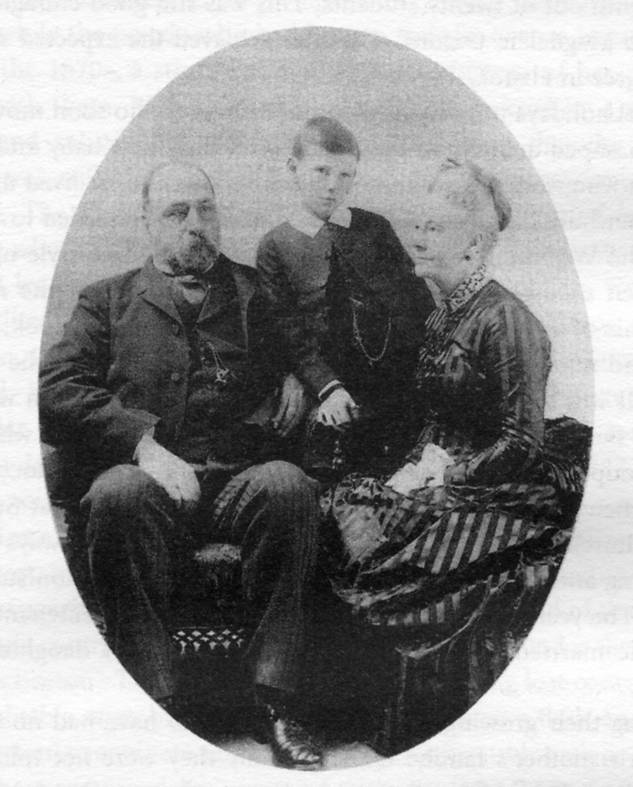 Charles, Meredith and Myra Browne, Editress of The Englishwoman's Domestic Magazine